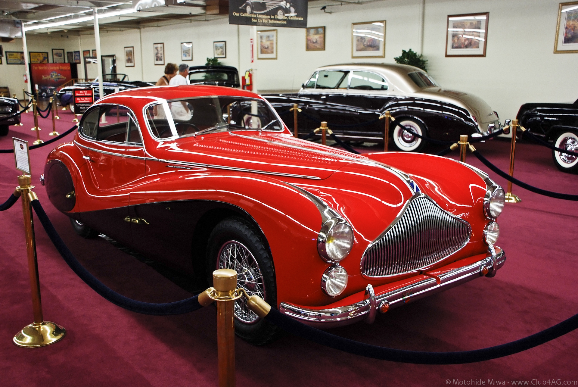 2011_11_2_Imperial_Palace_Harrahs_Auto_collection-1-31